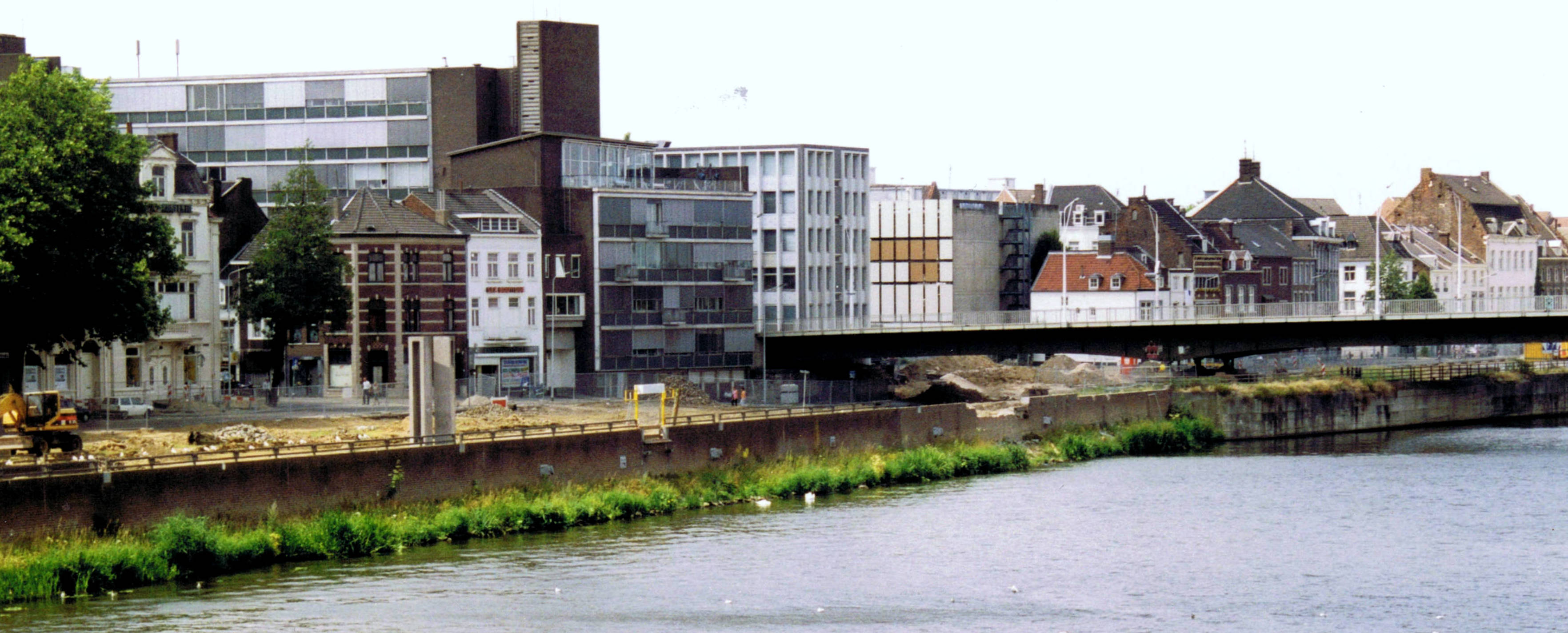 2001-07-08 in Maastricht; Wilhelminabrug and Maasboulevard under reconstruction.